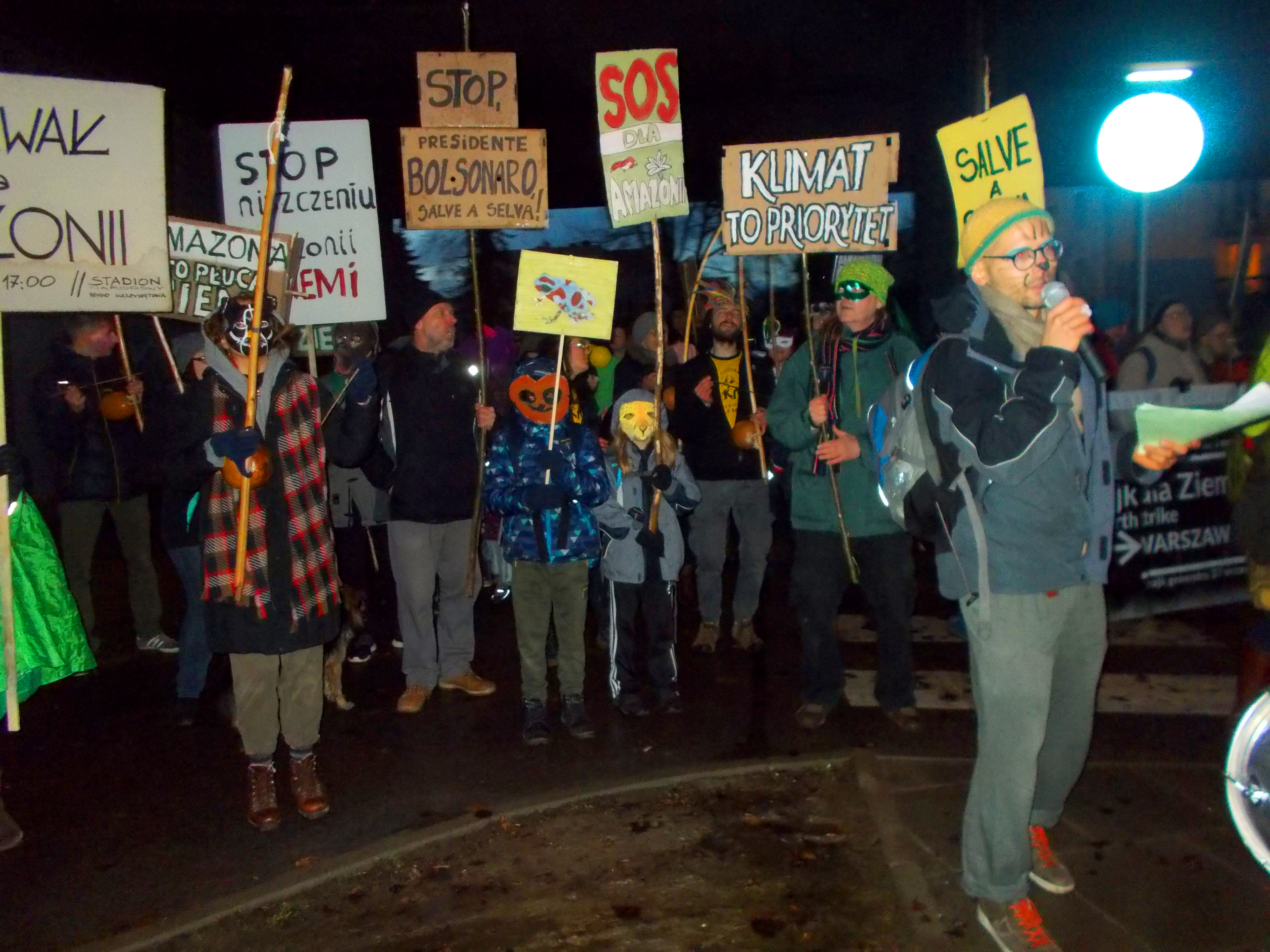 Carnival for Amazonia – protest in Warsaw against the destruction of the Amazonian forest. Bazil Ambassy in Warsaw